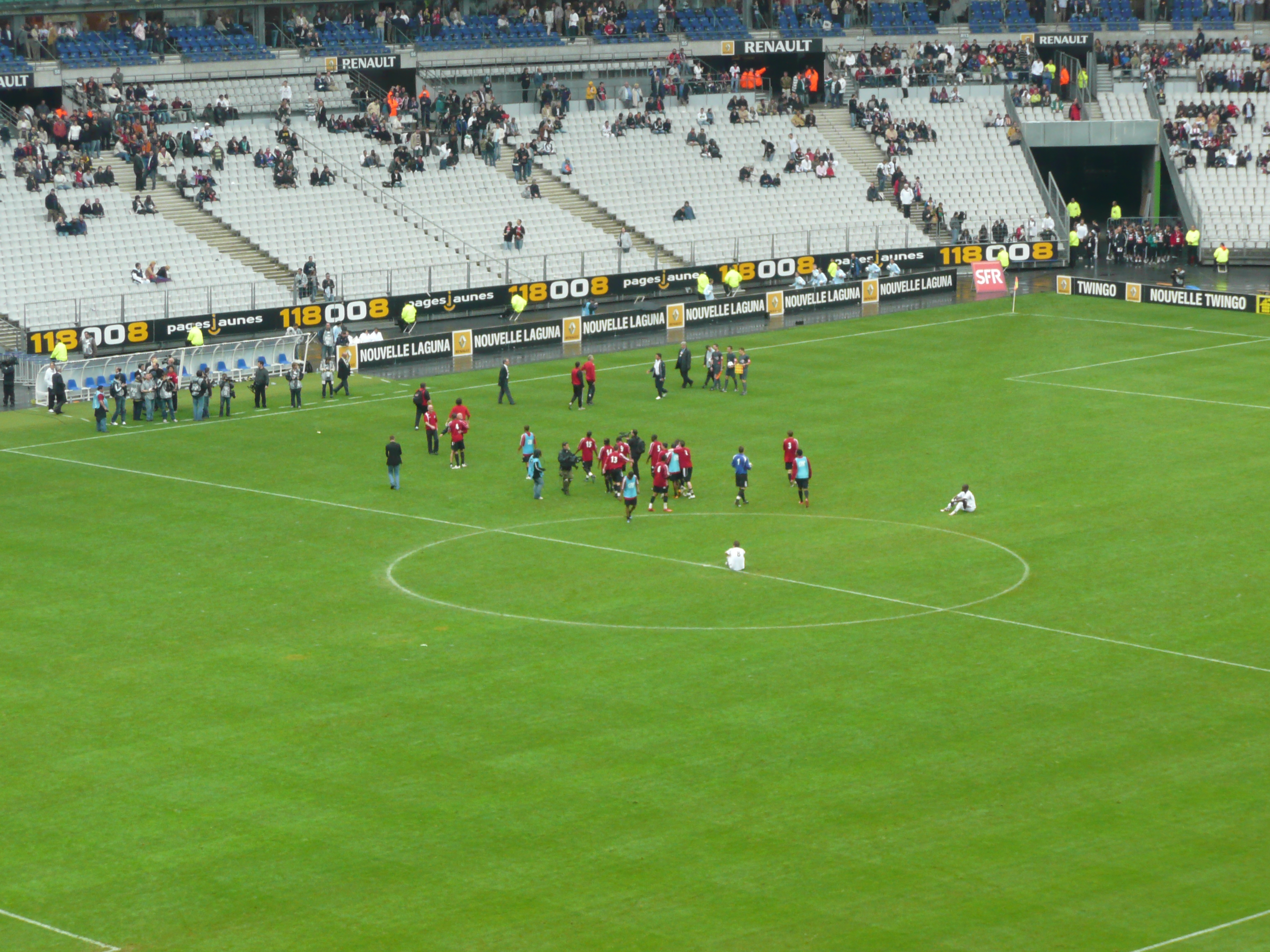 The Stade rennais celebrating their victory against the Girondins de Bordeaux (3-0) in the 2007-2008 Coupe Gambardella final.